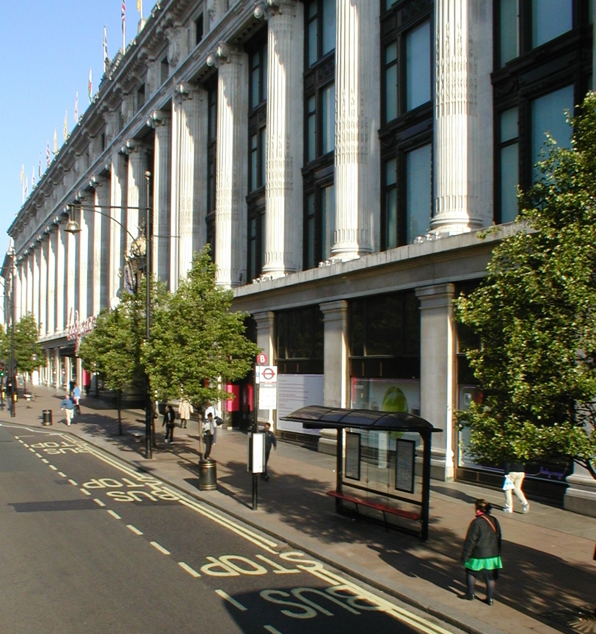 A view of Selfridges department store on Oxford Street in London. The image was taken with an Olympus Camedia D-230.